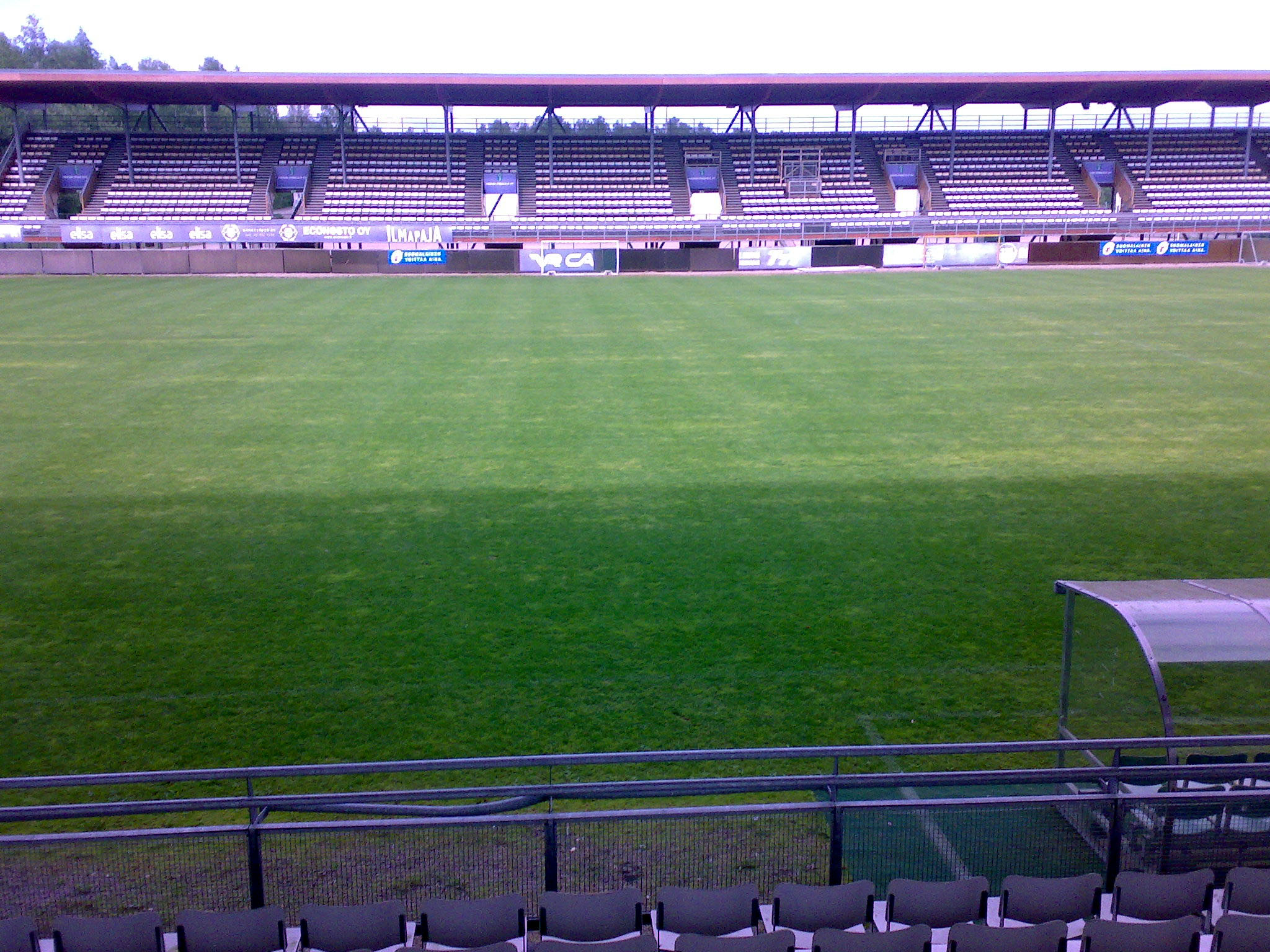 Inside of the Pohjola Stadion in Vantaa, Finland